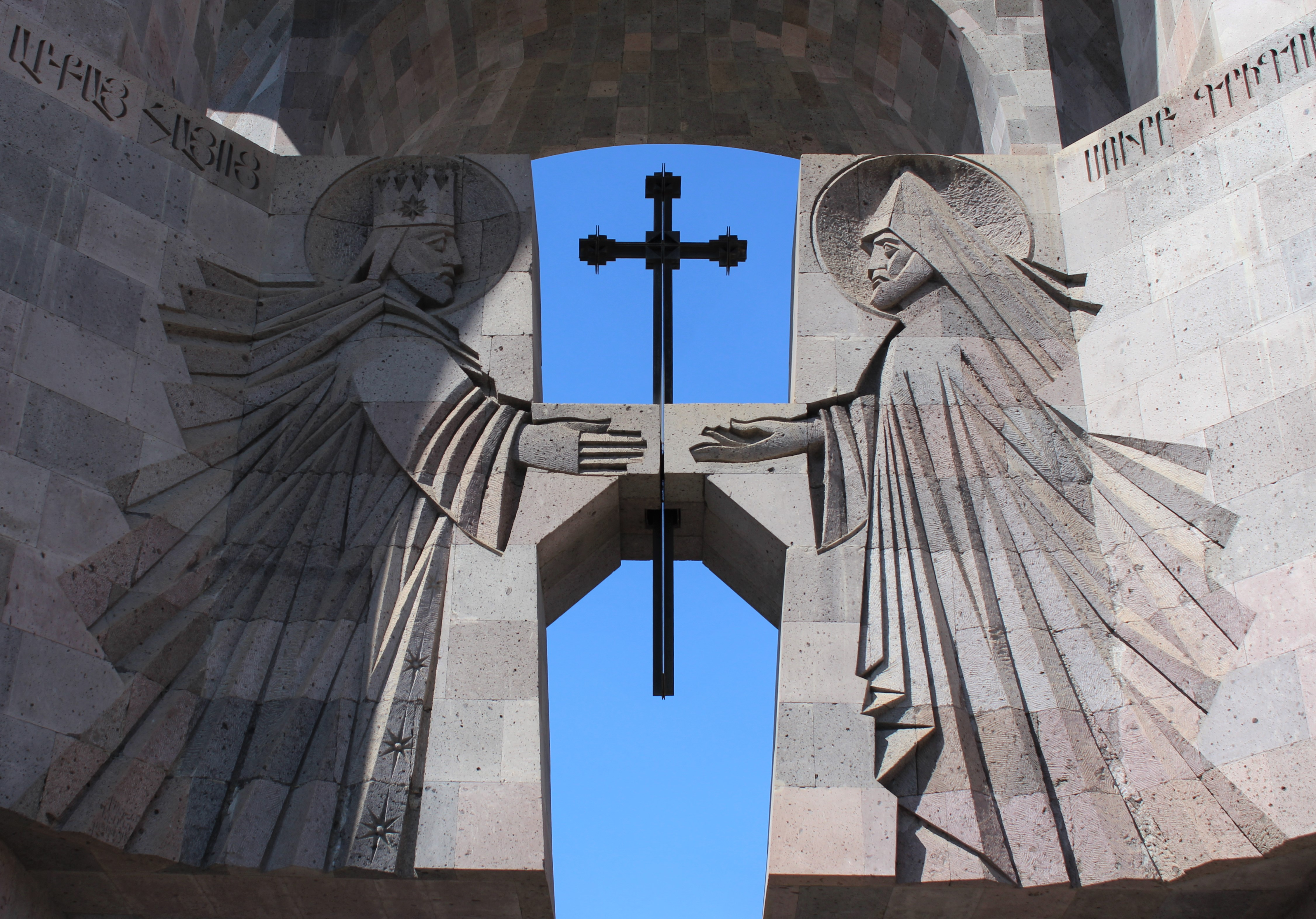 King Tiridates III and Gregory Illuminator relief in Echmiadzin. Tiridates proclaimed Christianity as the state religion of Armenia, making the Armenian kingdom the first state to embrace Christianity officially. Gregory Illuminator was a religious leader who is credited with converting Armenia from paganism to Christianity in 301.